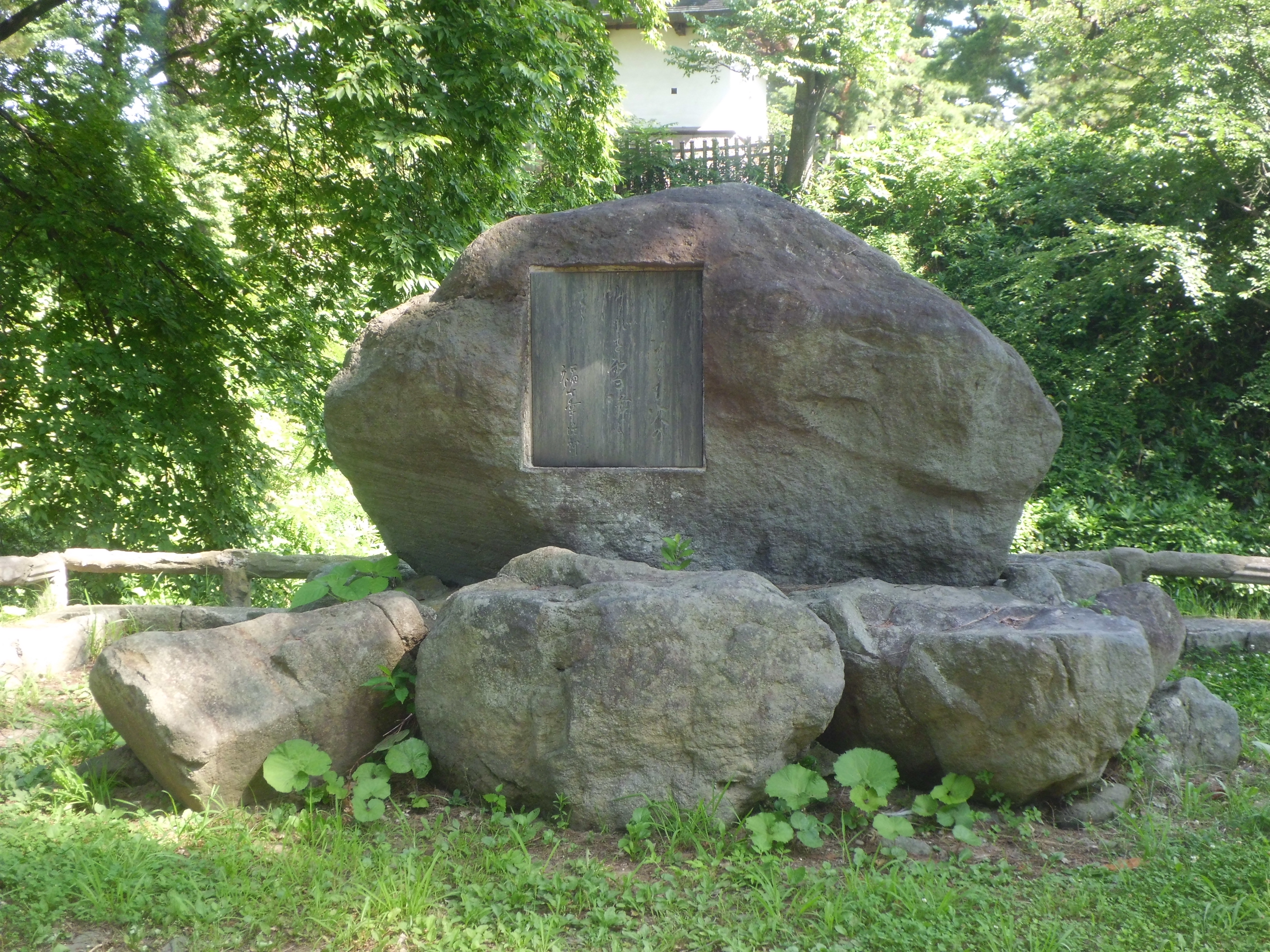 Poem Monument of Kojiro Fukushi